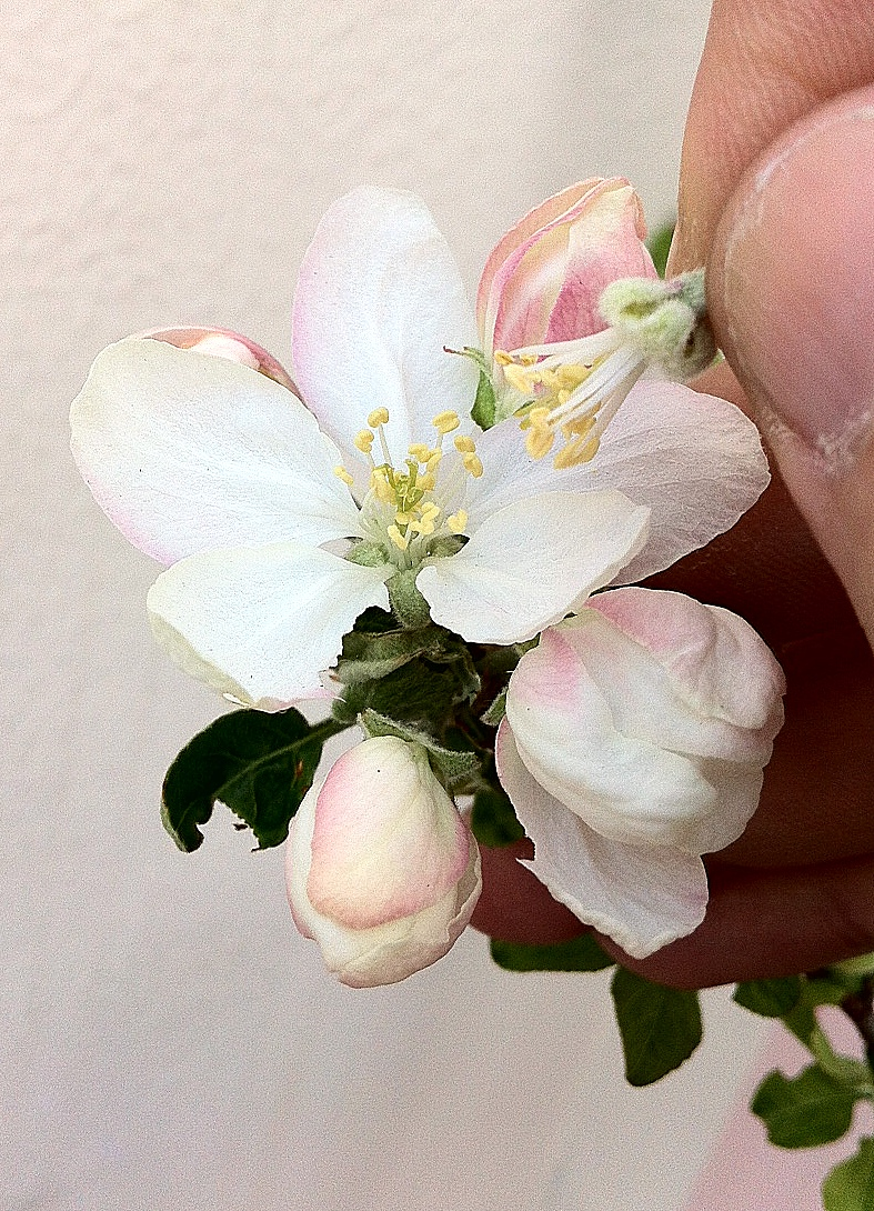 Artificial pollination with two apple tree flowers